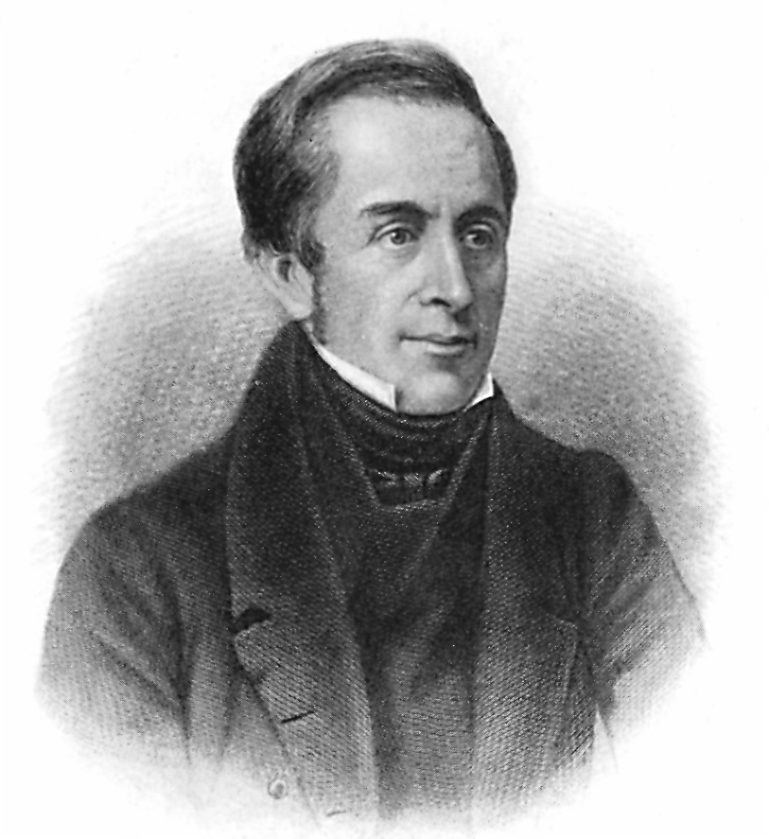 Thomas Hood - Project Gutenberg eText 16786.jpg